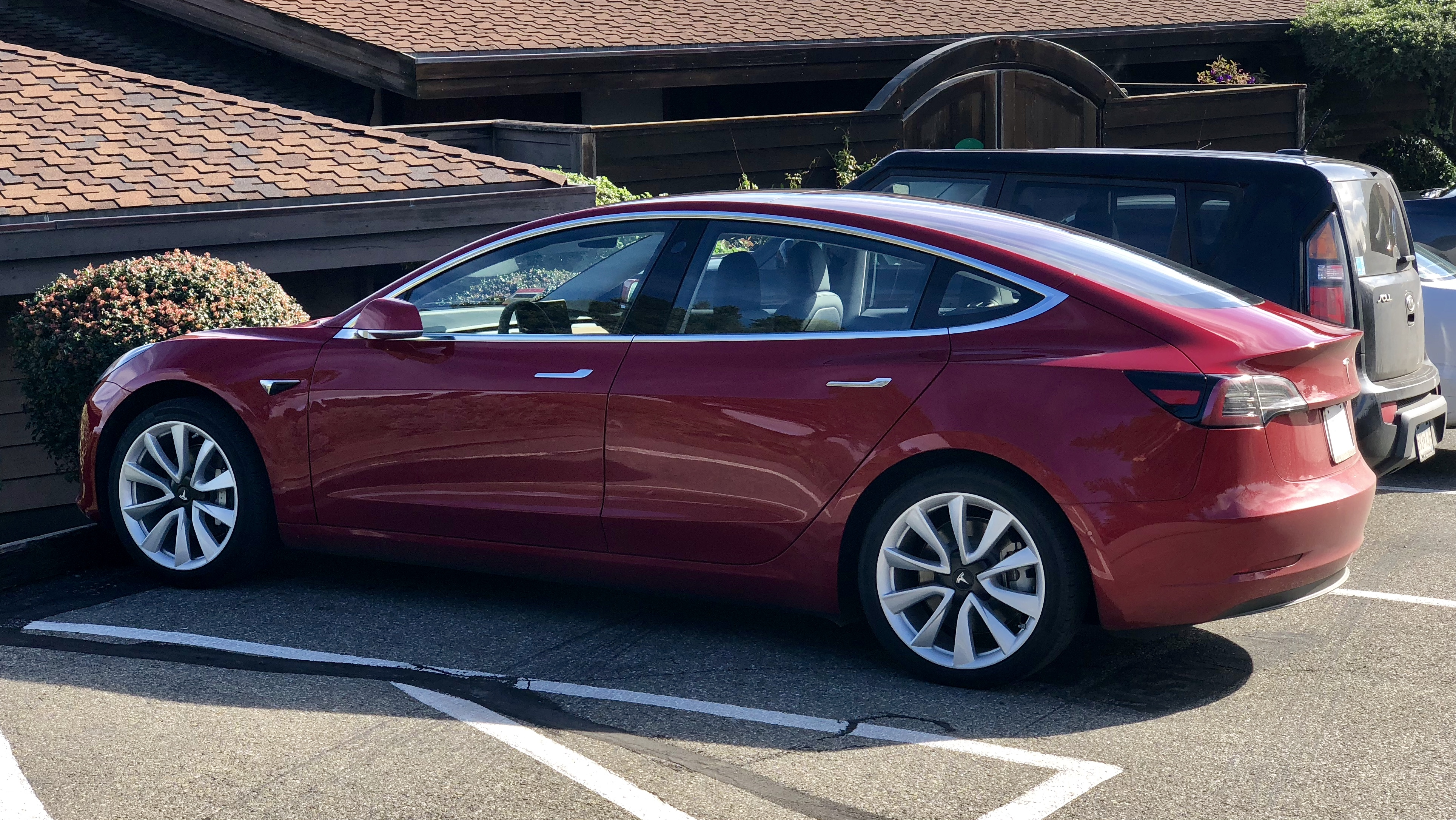 Driver side view, from a bit behind